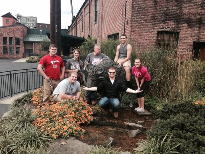 Buffalo Trace Distillery RNA 700